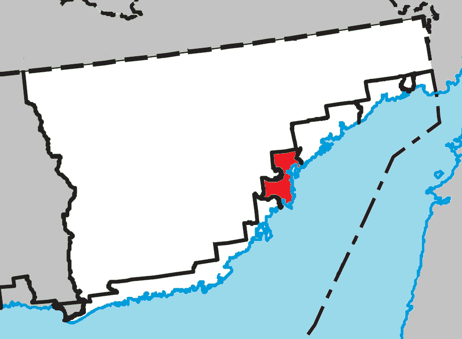 Location of Gros-Mécatina, Quebec within Le Golfe-du-Saint-Laurent Regional County Municipality.